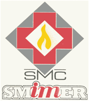 Smimer